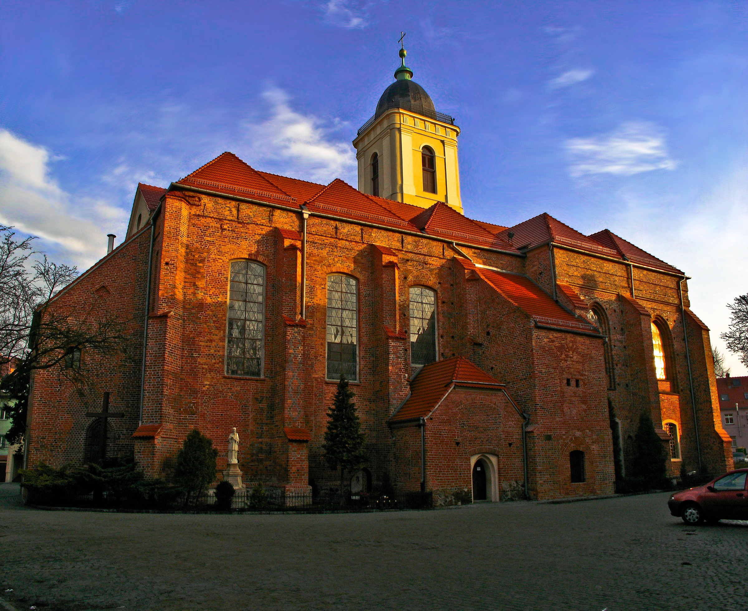 Saint Jadwiga concathedral